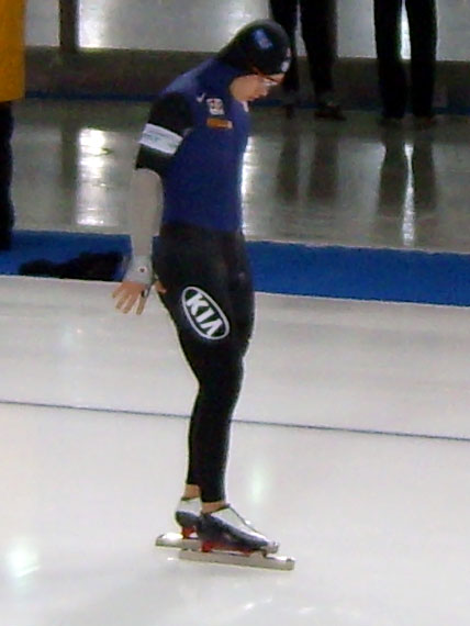 Mo Tae-beom (KOR) before 1000 meters world cup speedskating race in Berlin, Germany.